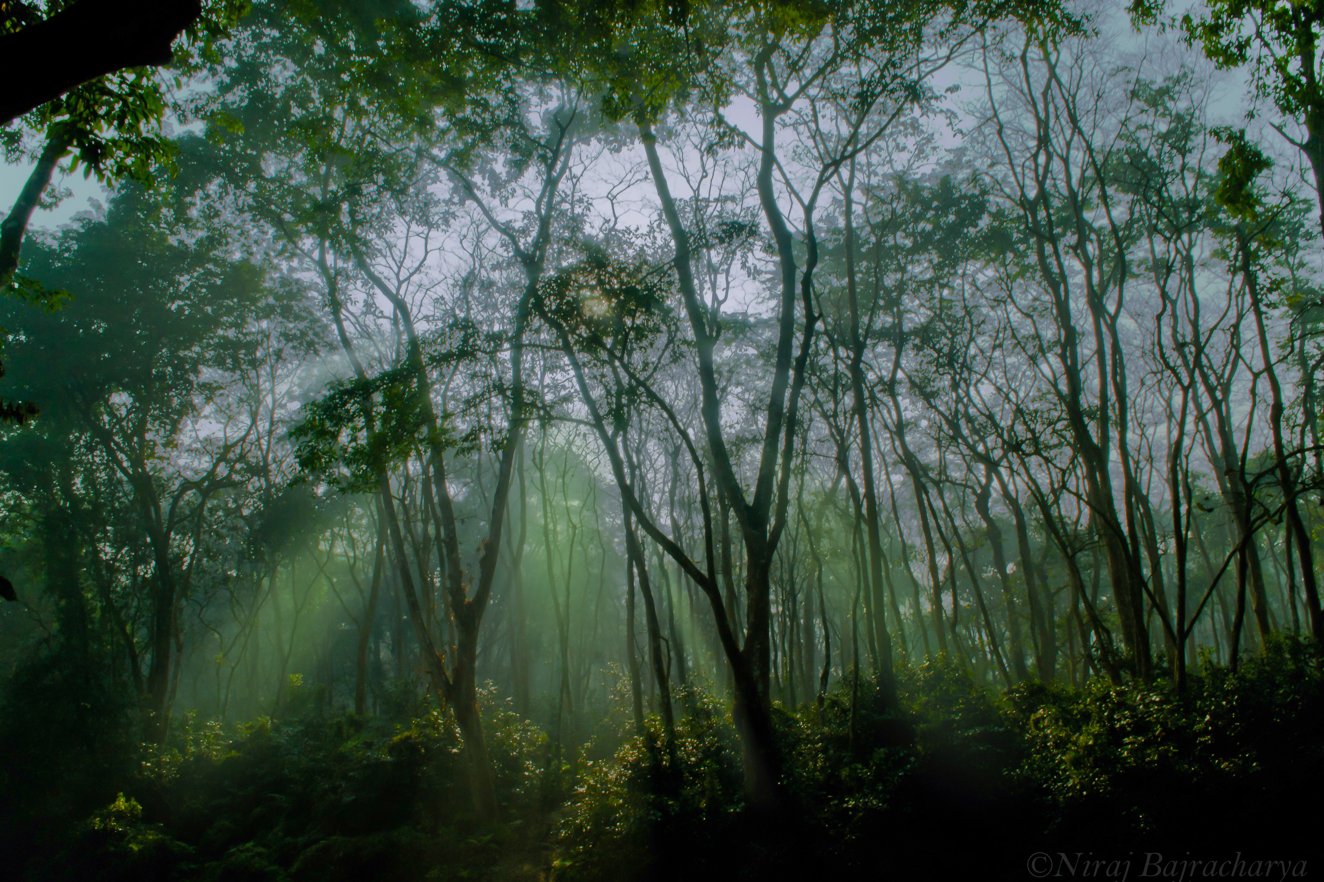 A part of buffer zone from sauraha.